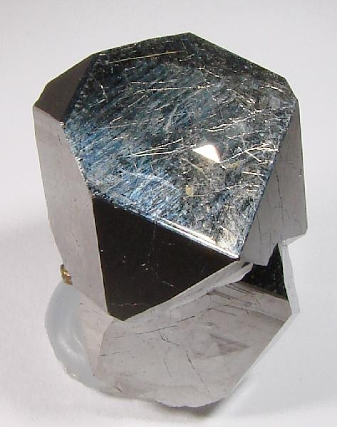 Carrollite Locality: Kamoya South II Mine (Kamoya Sud Mine; Kamoya South Mine), Kamoya, Kambove, Central area, Katanga Copper Crescent, Katanga (Shaba), Democratic Republic of Congo (Zaïre) (Locality at ) Size: thumbnail, 2.3 x 1.4 x 1.2 cm Carrollite This lovely thumb has crystals with the complex habit, detailed faces, razor-sharp edges, and mirror surfaces that make this a classic for Carrollite crystals. What sets this beauty apart is the distinct nature of the crystals � although intergrown, they each maintain their own visual personality, give this an aesthetic appeal above the already high norm. Absolute killer of a thumbnail! This came from the best strike ever for the species, about 5 years ago now.